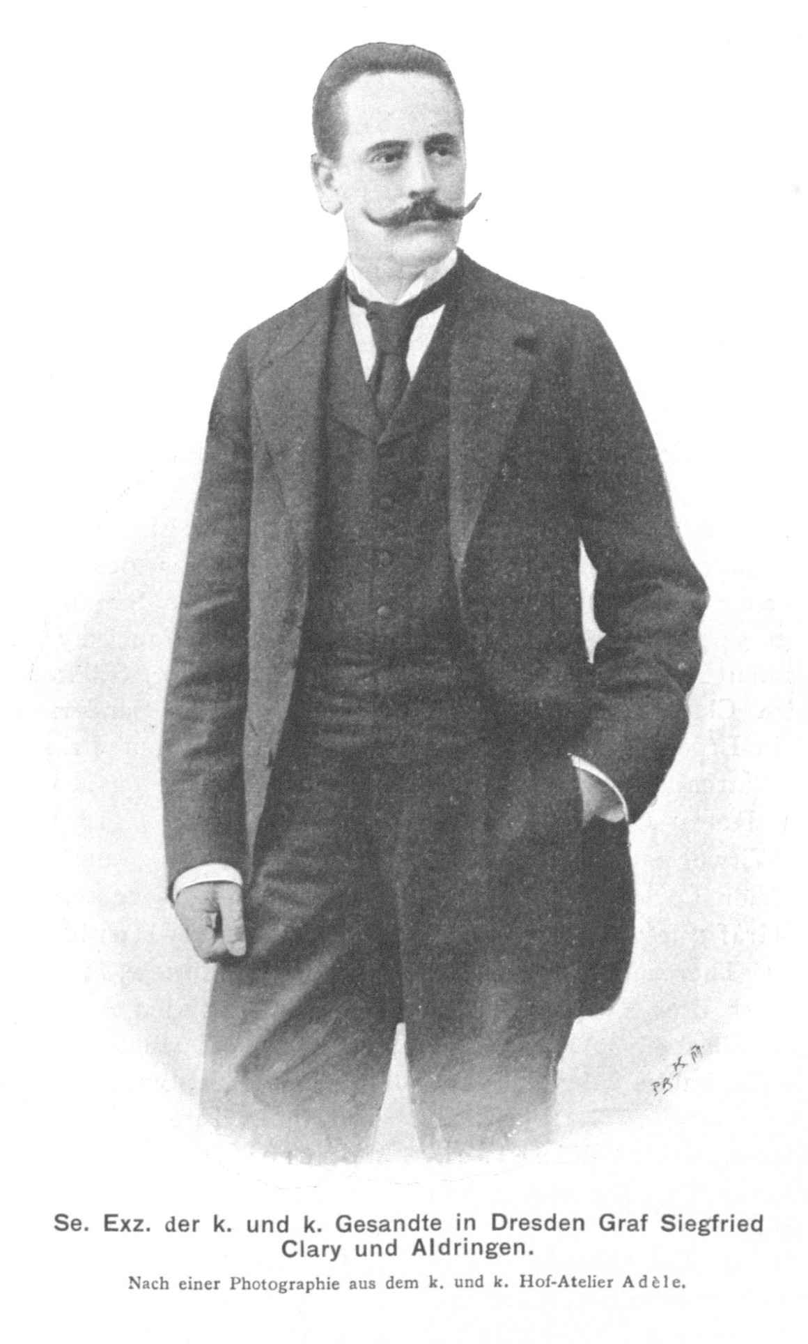 Portrait of Prince Siegfried von Clary-Aldringen (1848-1929), Austrian diplomat, an envoy in Saxony.